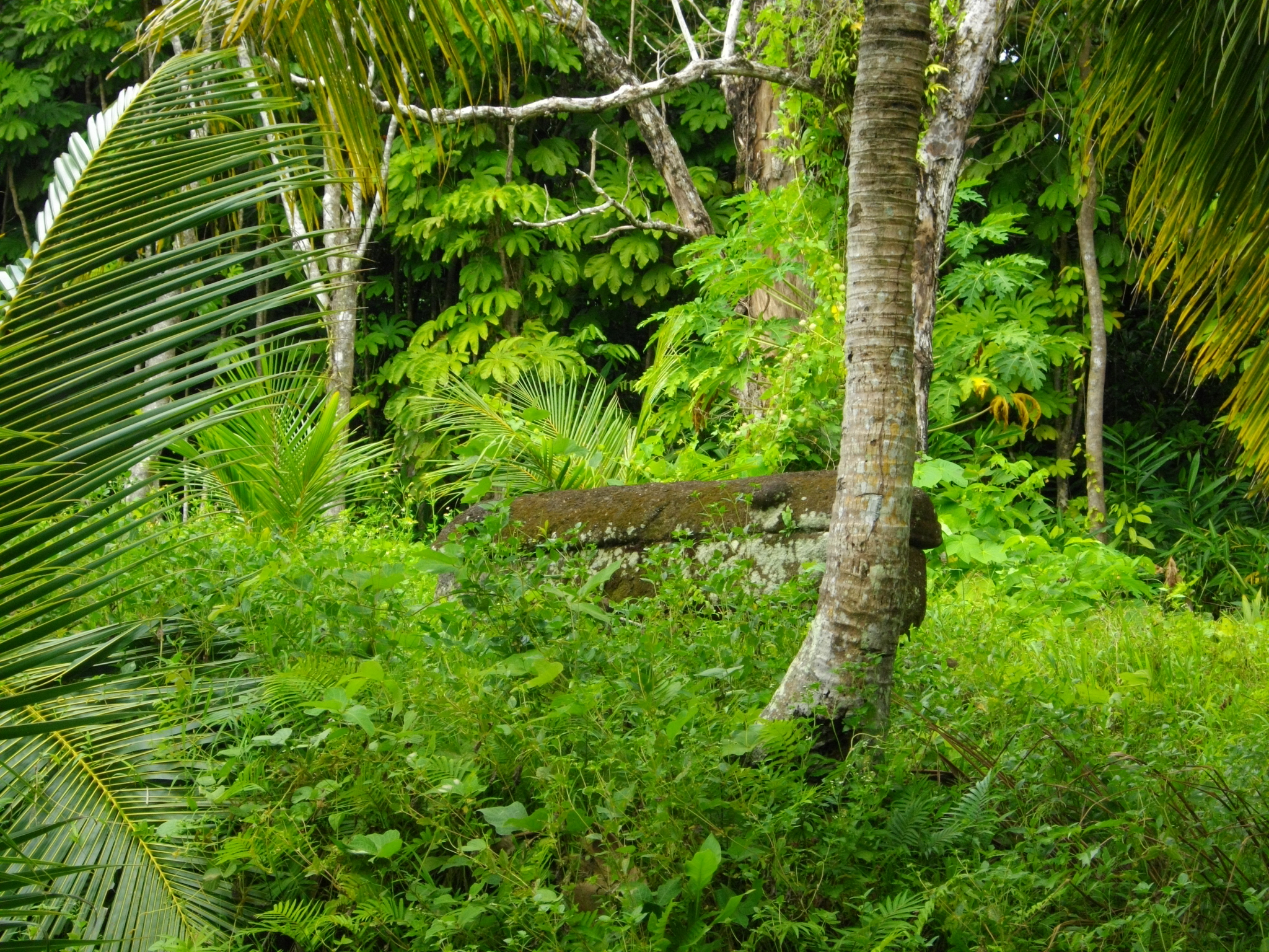 Tet el Bad Stone Coffin